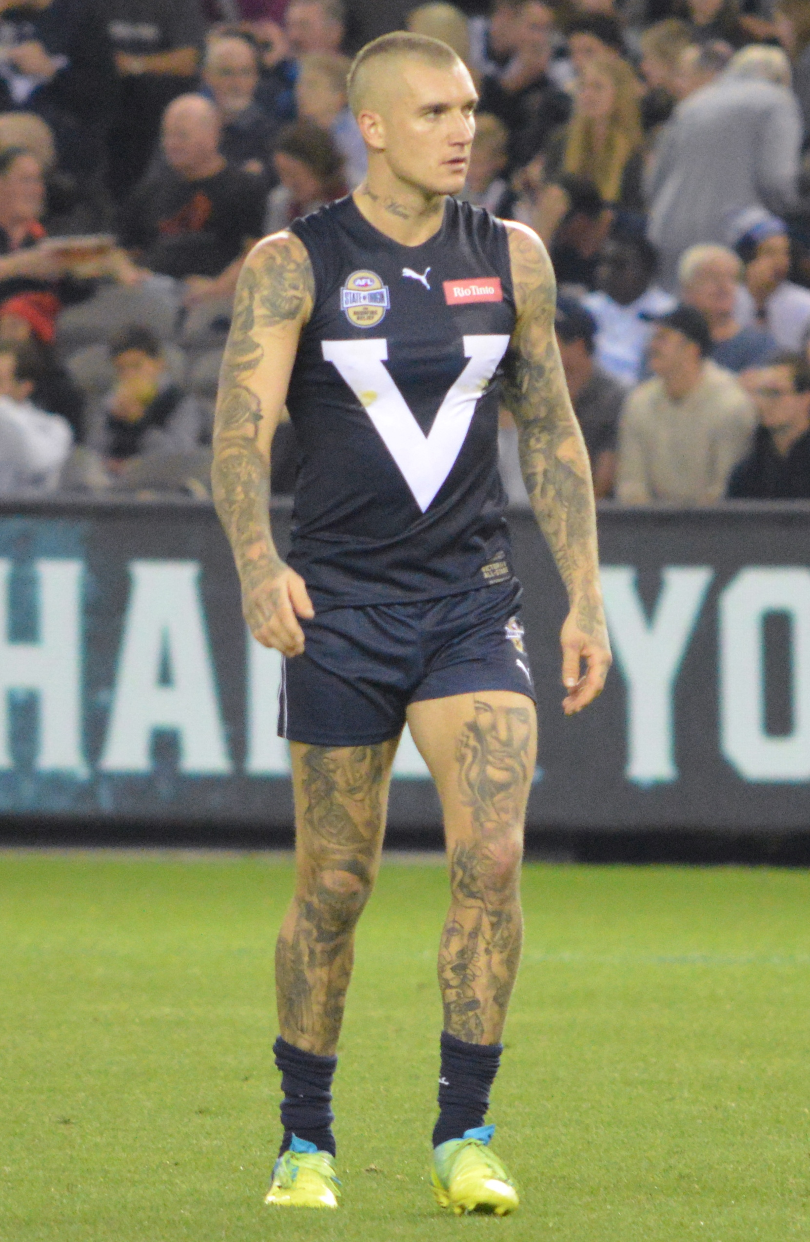 Dustin Martin at the AFL State of Origin for Bushfire Relief Match at Marvel Stadium in February 2020.